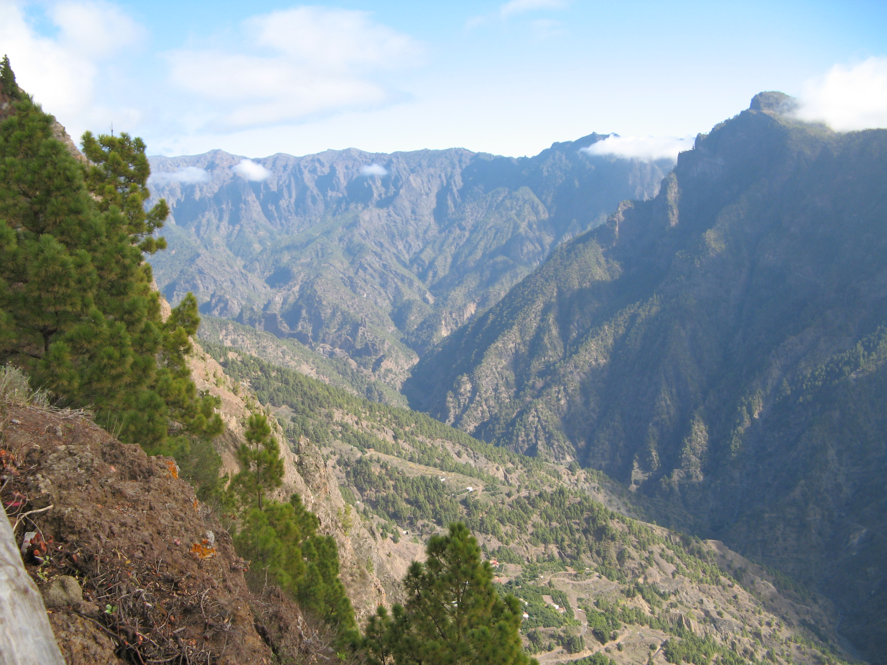 Caldera de Taburiente